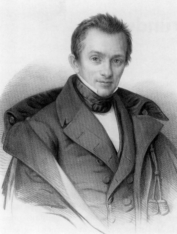 Lithography by August Dircks (based on a portrait by Georg Friedrich Adolph Schöner), showing Arnold Duckwitz (1802–1881), politician from Bremen, Germany, and in 1848/49 secretary of trade and secretary of the navy in the provisional government of the Deutscher Bund (the “German Confederation”).